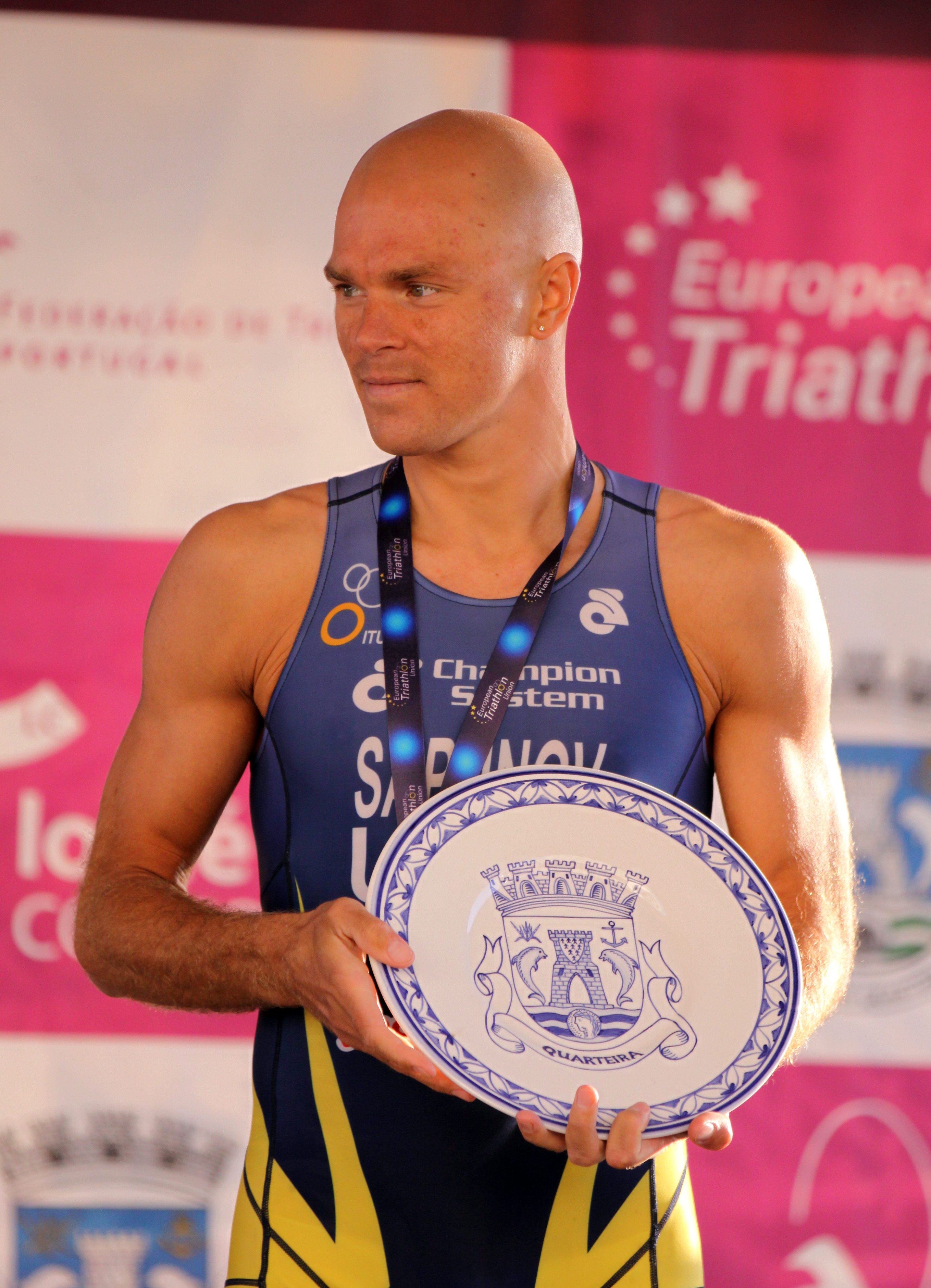 Danylo Sapunov at the European Cup elite triathlon in Quarteira, 2011.